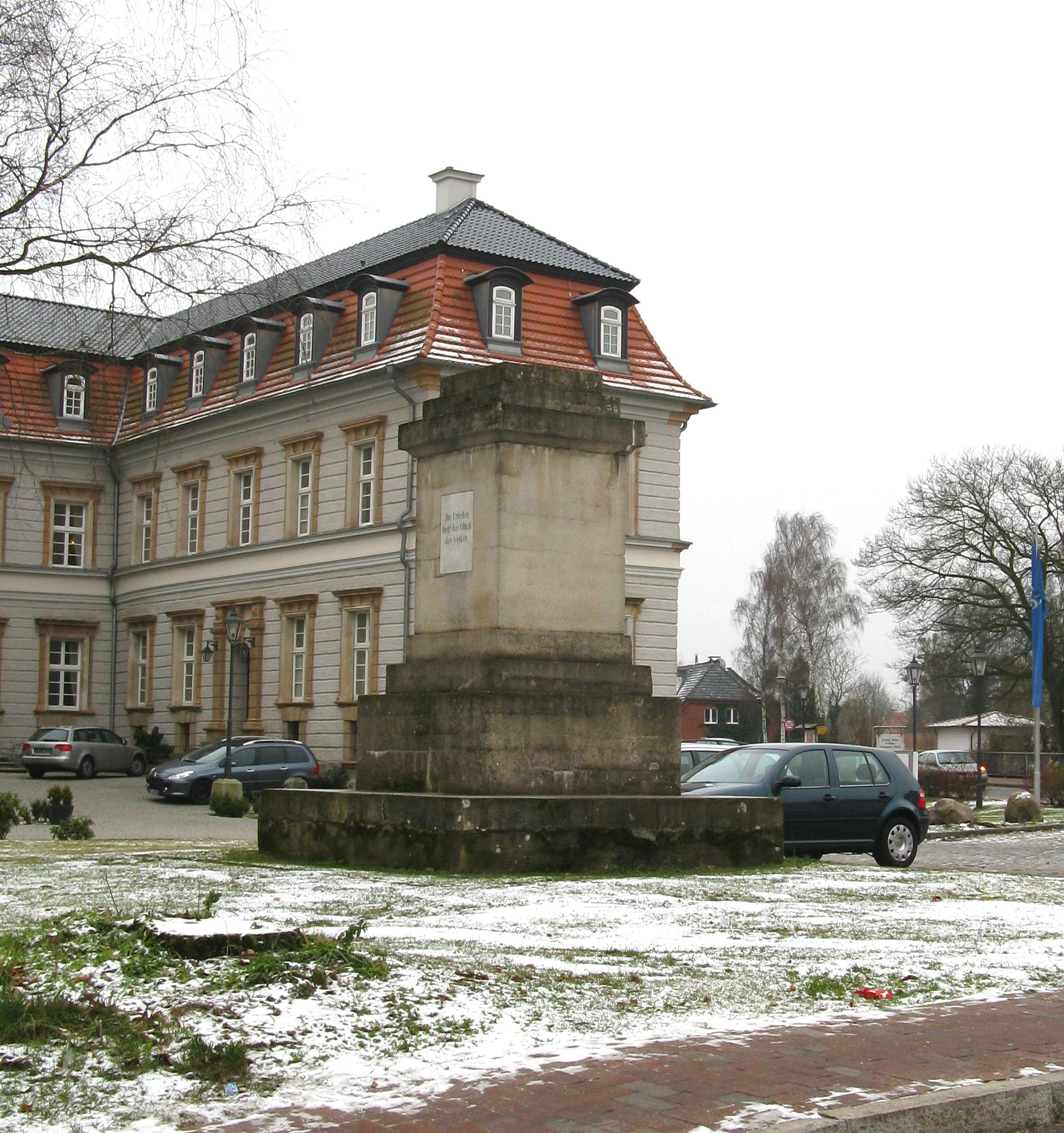 Memorial for Sophie and Hans Scholl (former war memorial) in Neustadt-Glewe, Germany, destroyed in July 2011